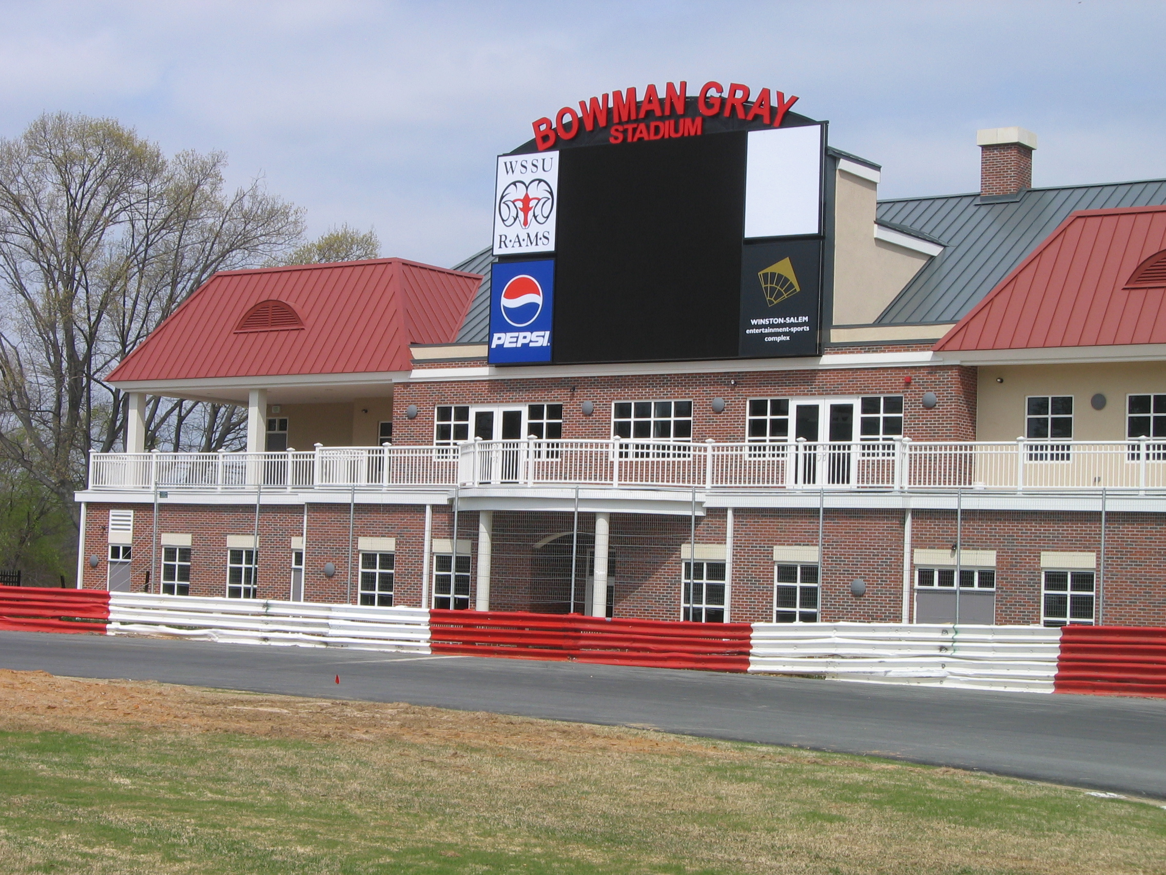 Football & Basketball Facilities Winston~Salem Stadium